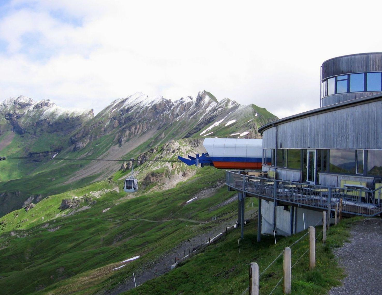 Alpentower, Planplatten